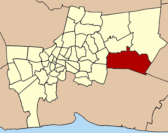 Map of Bangkok, Thailand, highlighting the district (khet) Lat Krabang (ลาดกระบัง)